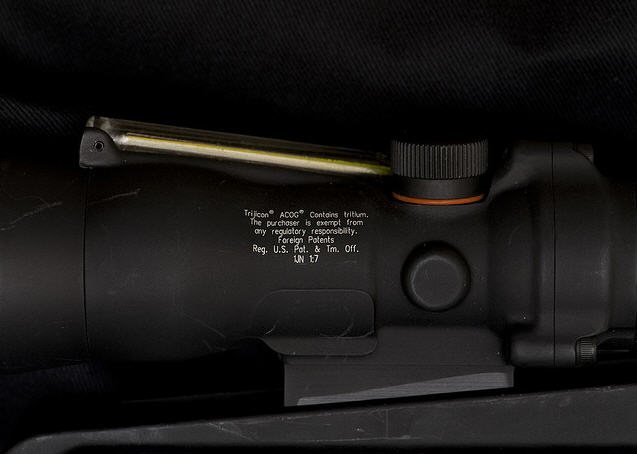 Trijicon rifle scope with "secret" Bible code reference to 1 John 1:7, "But if we walk in the light, as he is in the light, we have fellowship with one another, and the blood of Jesus, his Son, purifies us from all sin."